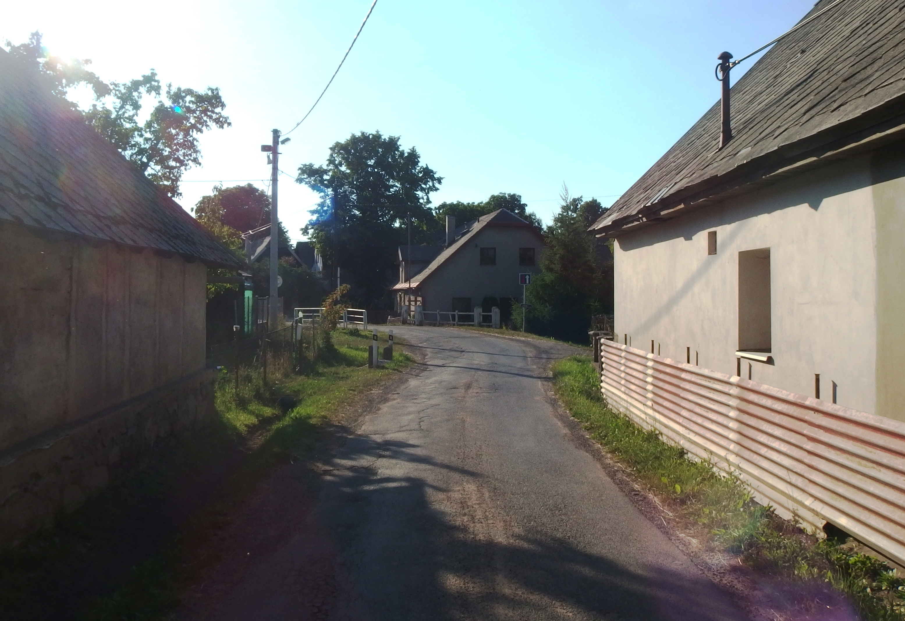 Krouna, Chrudim District, Czech Republic, part Oldřiš.